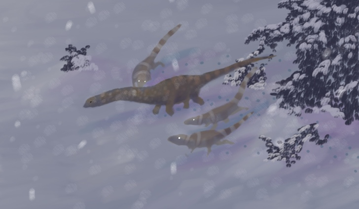 An illustration showing a family of Yutyrannus hunting a subadult Dongbeititan